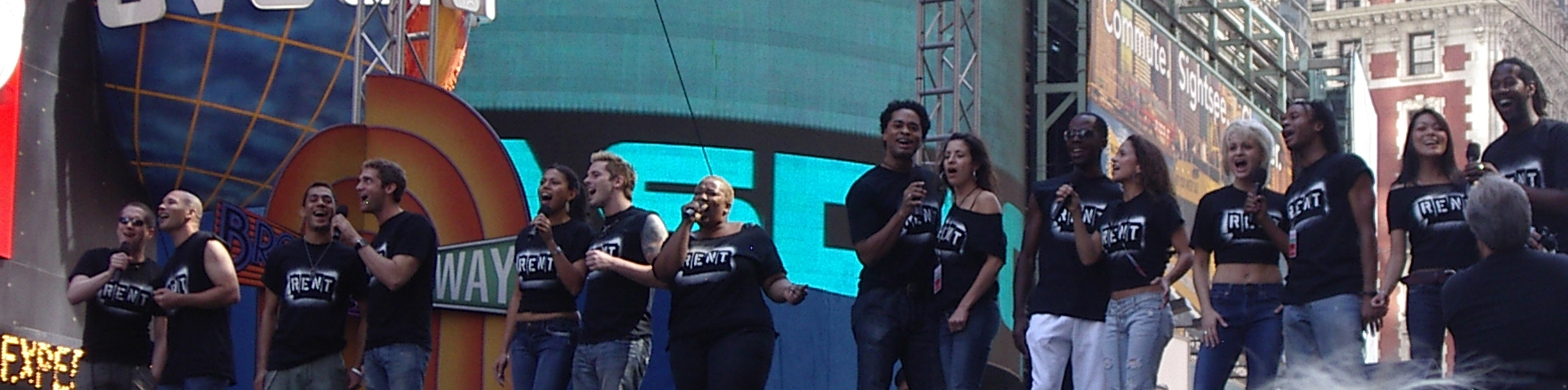 I took this picture at Broadway on Broadway, 2005.